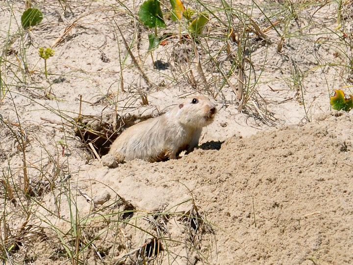 Ctenomys flamarioni photographed in Rio Grande do Sul, Brazil, in December 2010.